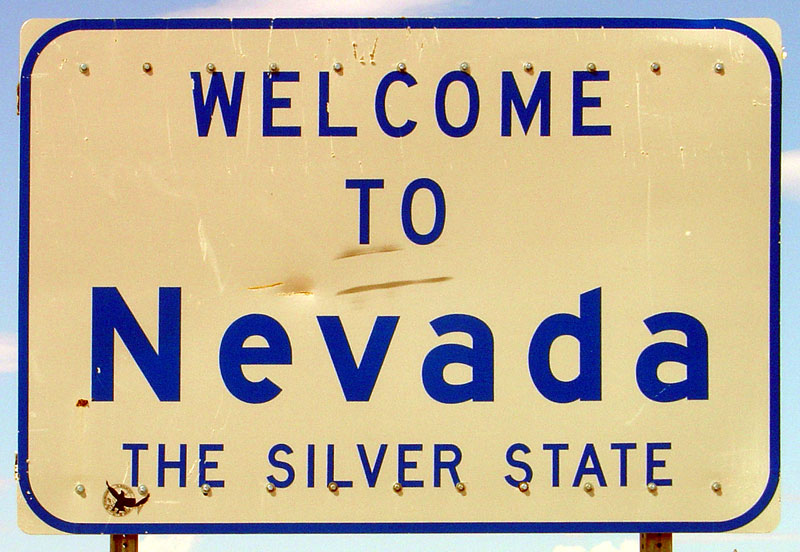 Road Sign "Welcome to Nevada - the silver state"